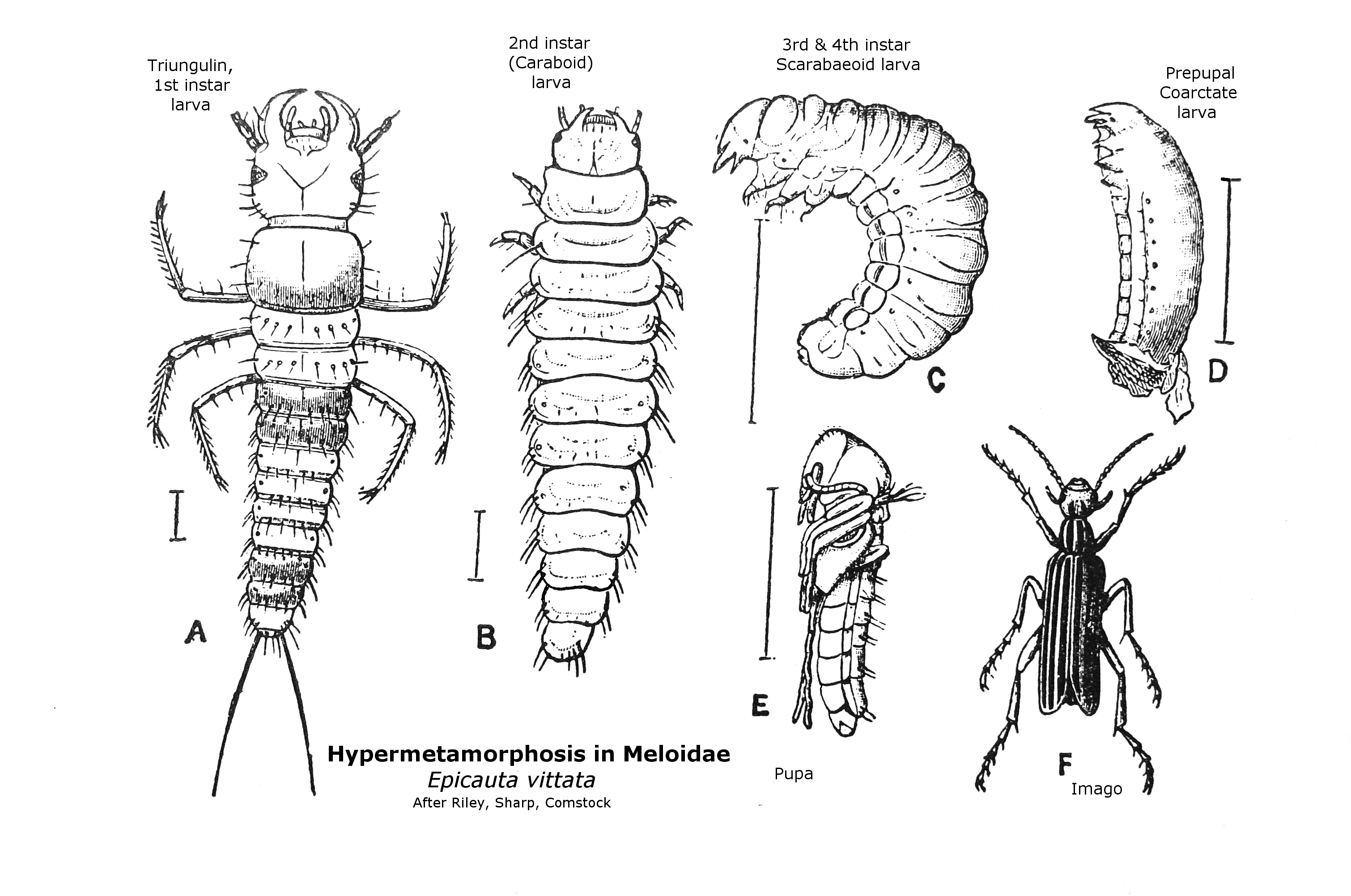 Picture scanned and edited from Comstock, He himself had got it from previous authors, Riley et al